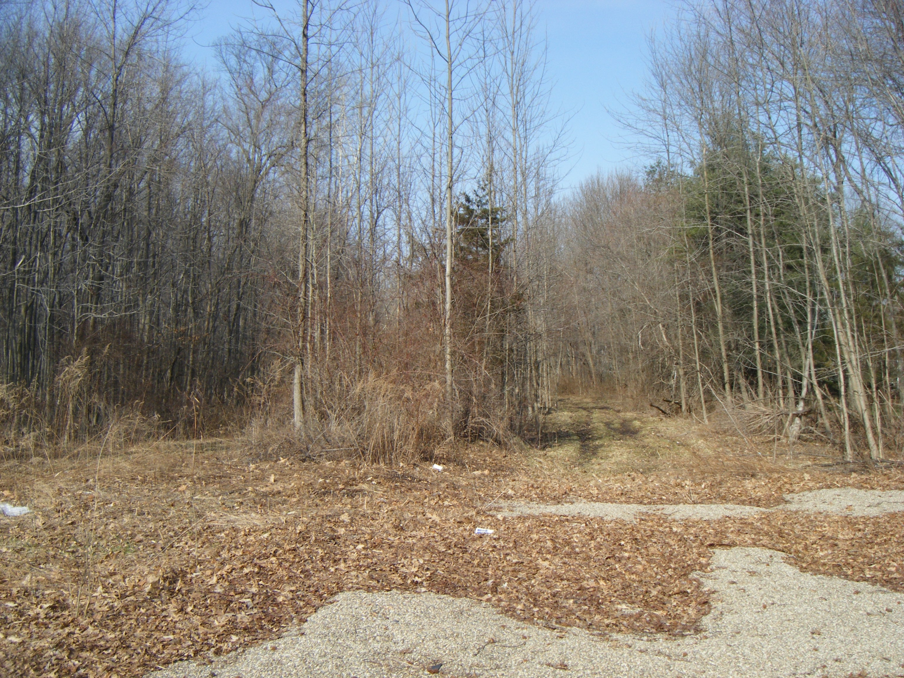 The abandoned right-of-way that was to be a northern extension of the Eisenhower Parkway, viewed from the northern dead end of the Eisenhower Parkway in Roseland, New Jersey